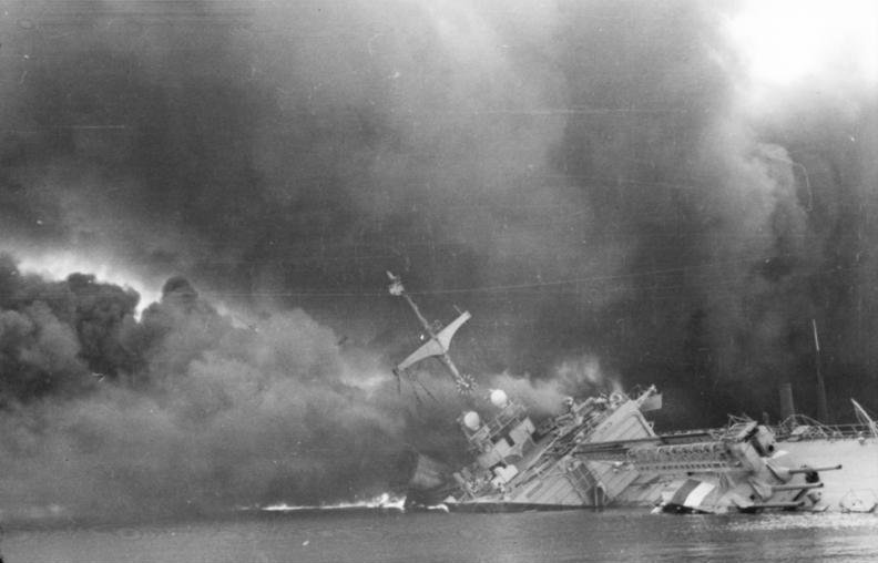 Information added by Wikimedia users.Probably Marseillaise during the Scuttling of the French fleet in Toulon